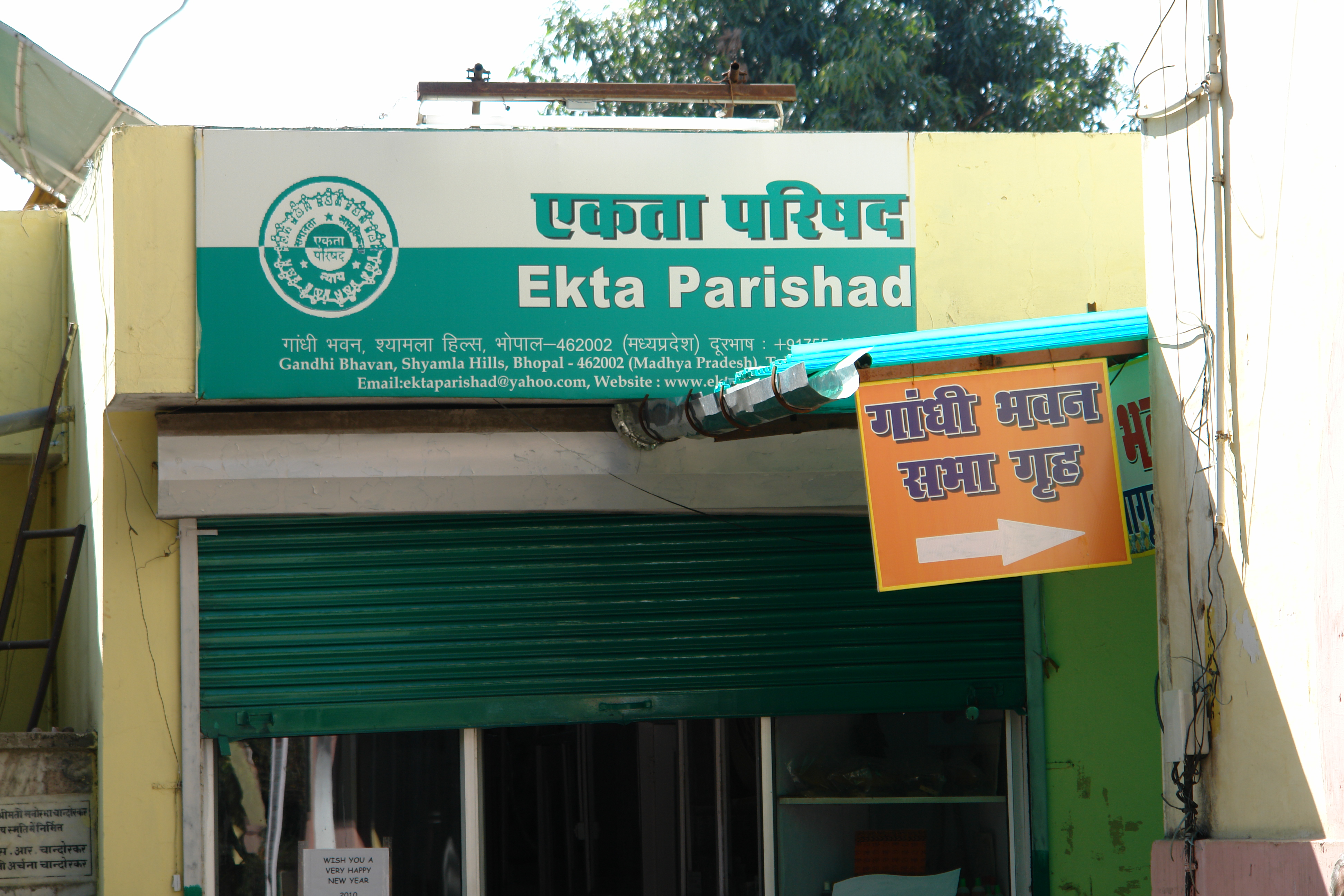 Ekta Parishad Office, Bhopal, India.